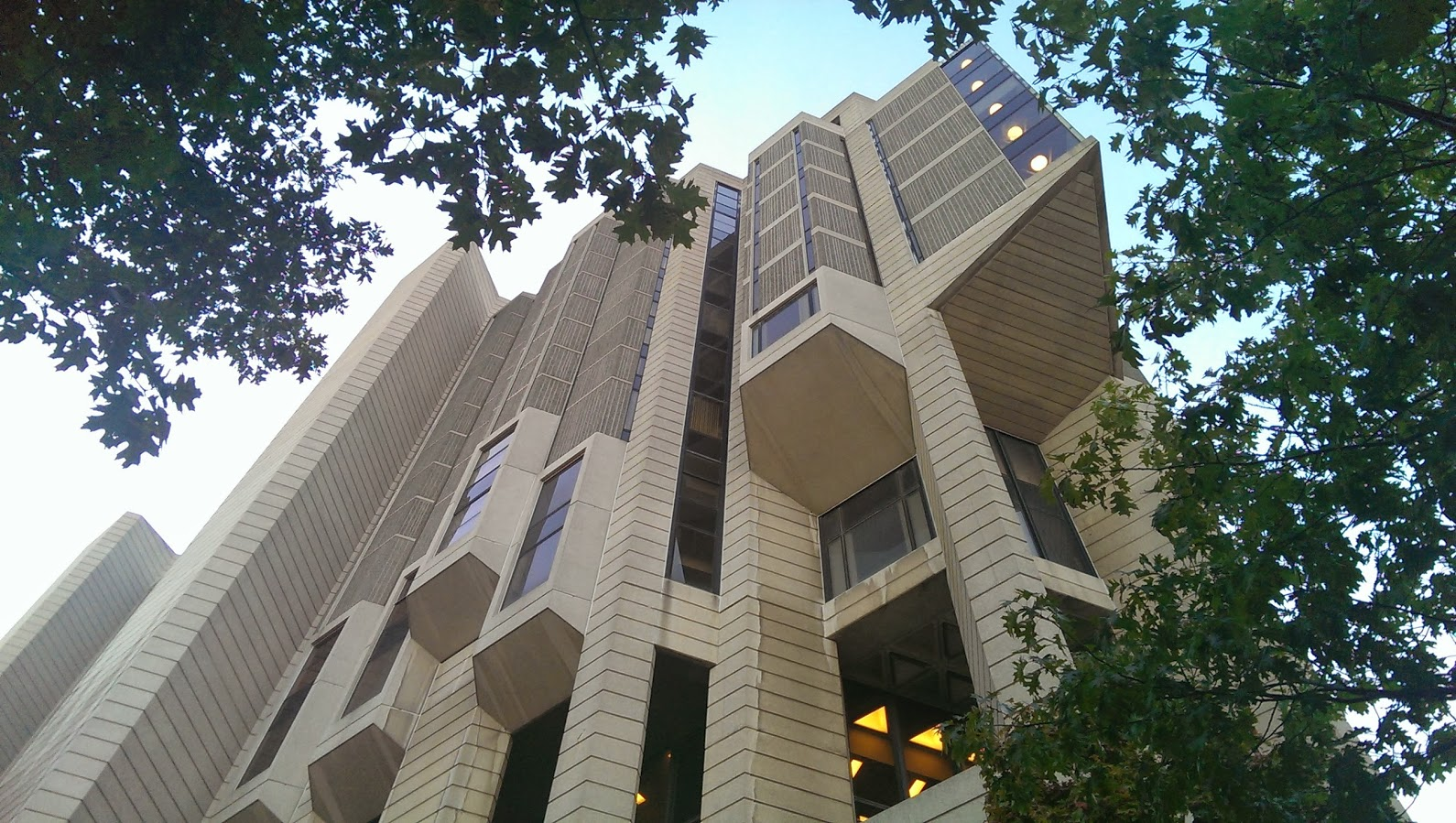 Robarts Library at University of Toronto